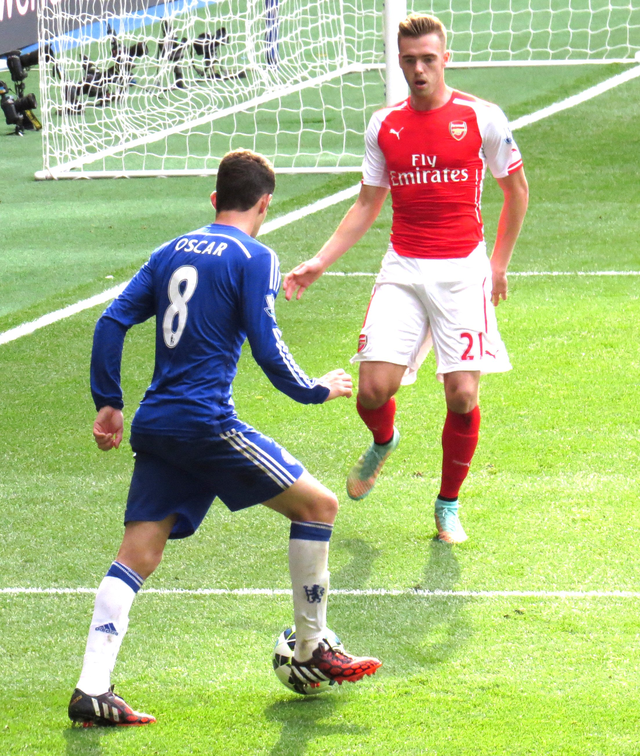 Calum Chambers vs Chelsea at Stamford Bridge Oct 2014